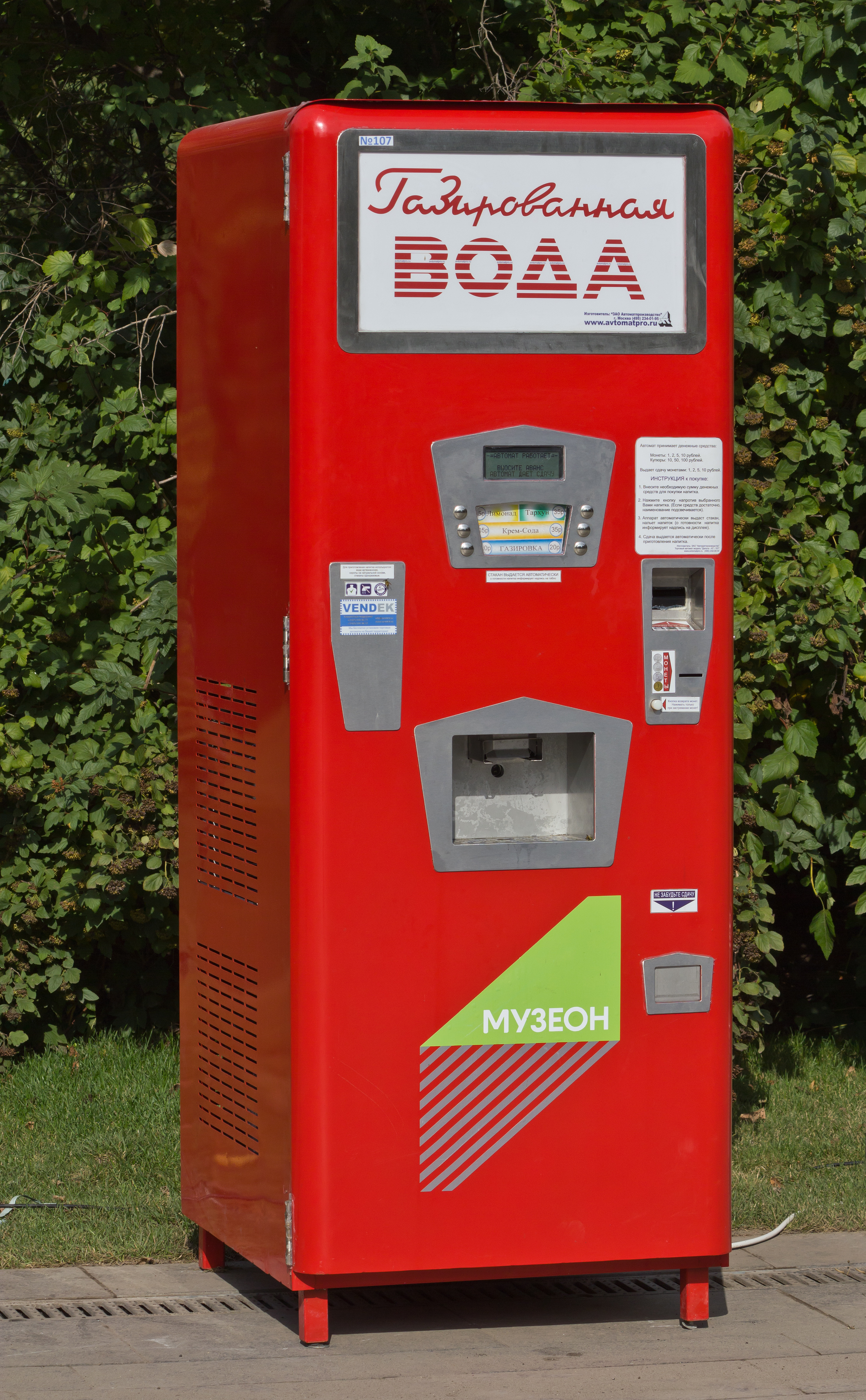 Moscow, Russia. Retro-style water vending machine in Muzeon Park.